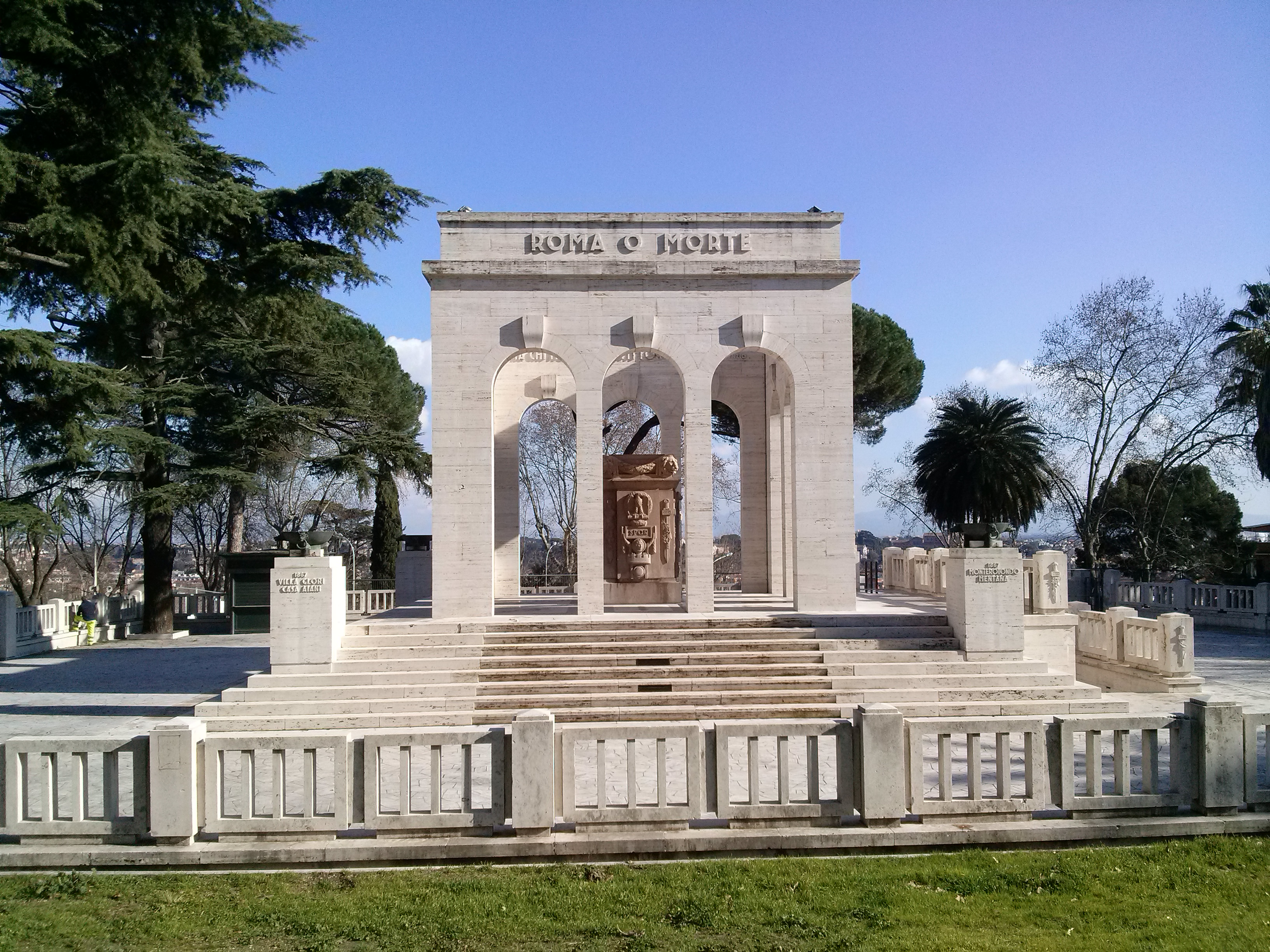 Mausoleum Ossuarium of the Garibaldi Soldiers (including Arthur Benni) in the Gianicolo hill